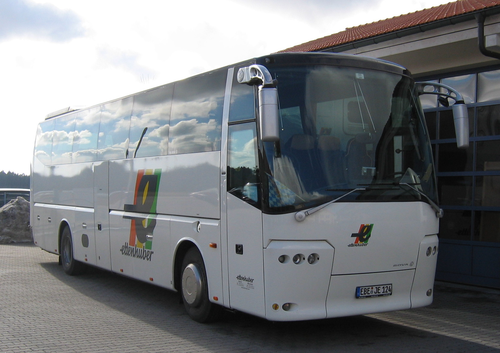 Coach Bova Magiq of Busbetrieb Josef Ettenhuber.